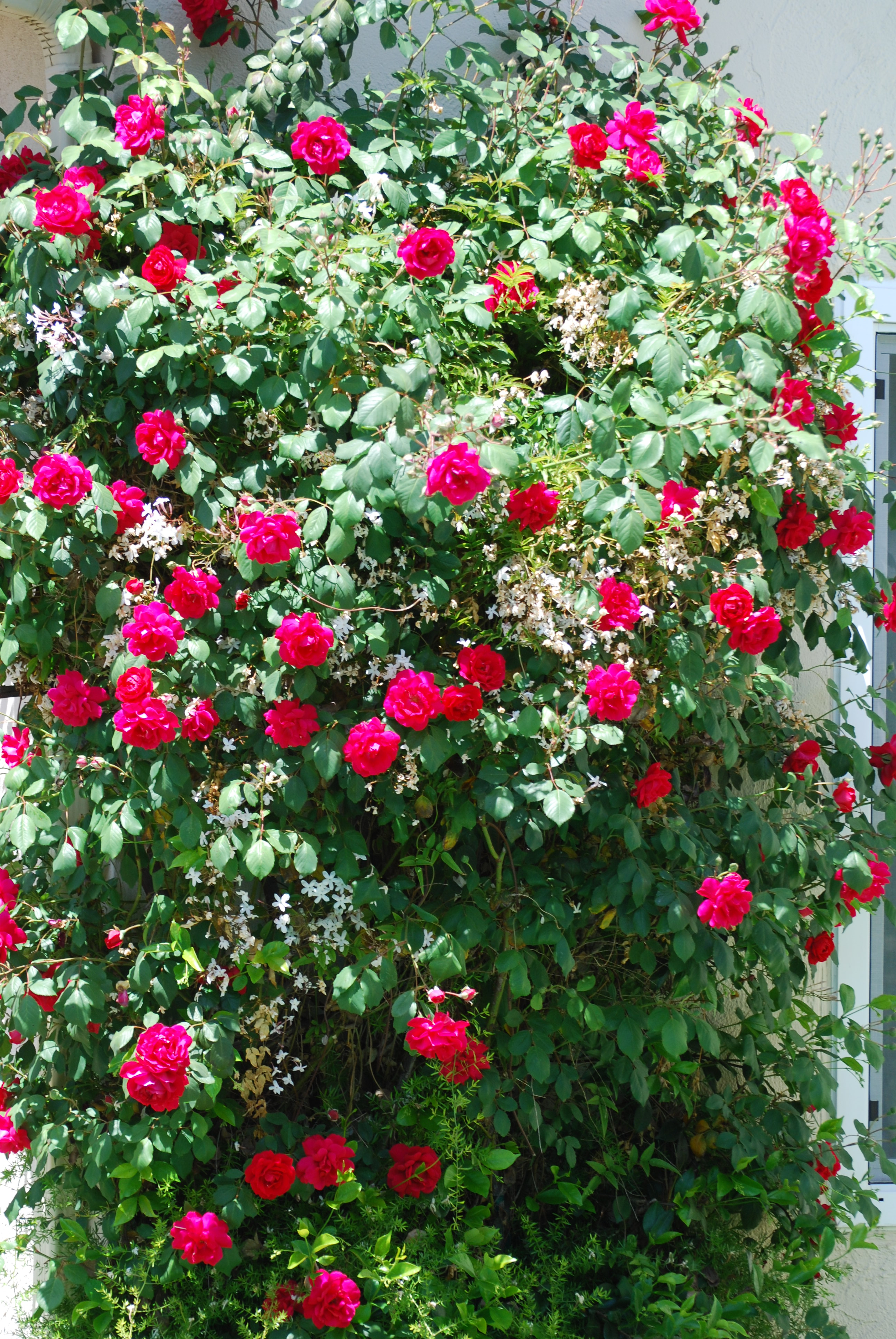 A rose bush.